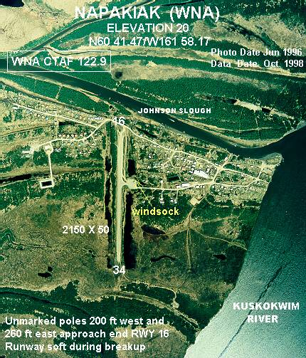 Annotated aerial photograph of Napakiak Airport (WNA) in Napakiak, Alaska, United States